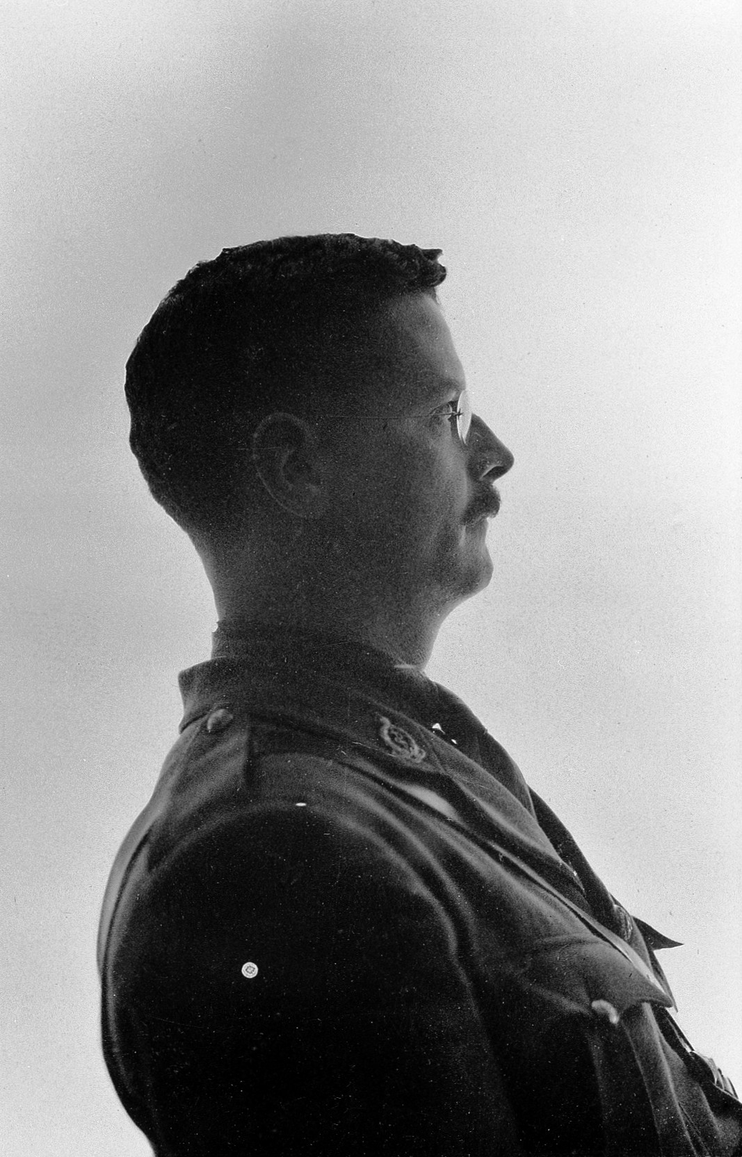 Silhouette portrait of Gordon Holmes, Archives & Manuscripts Keywords: Curtis Webb